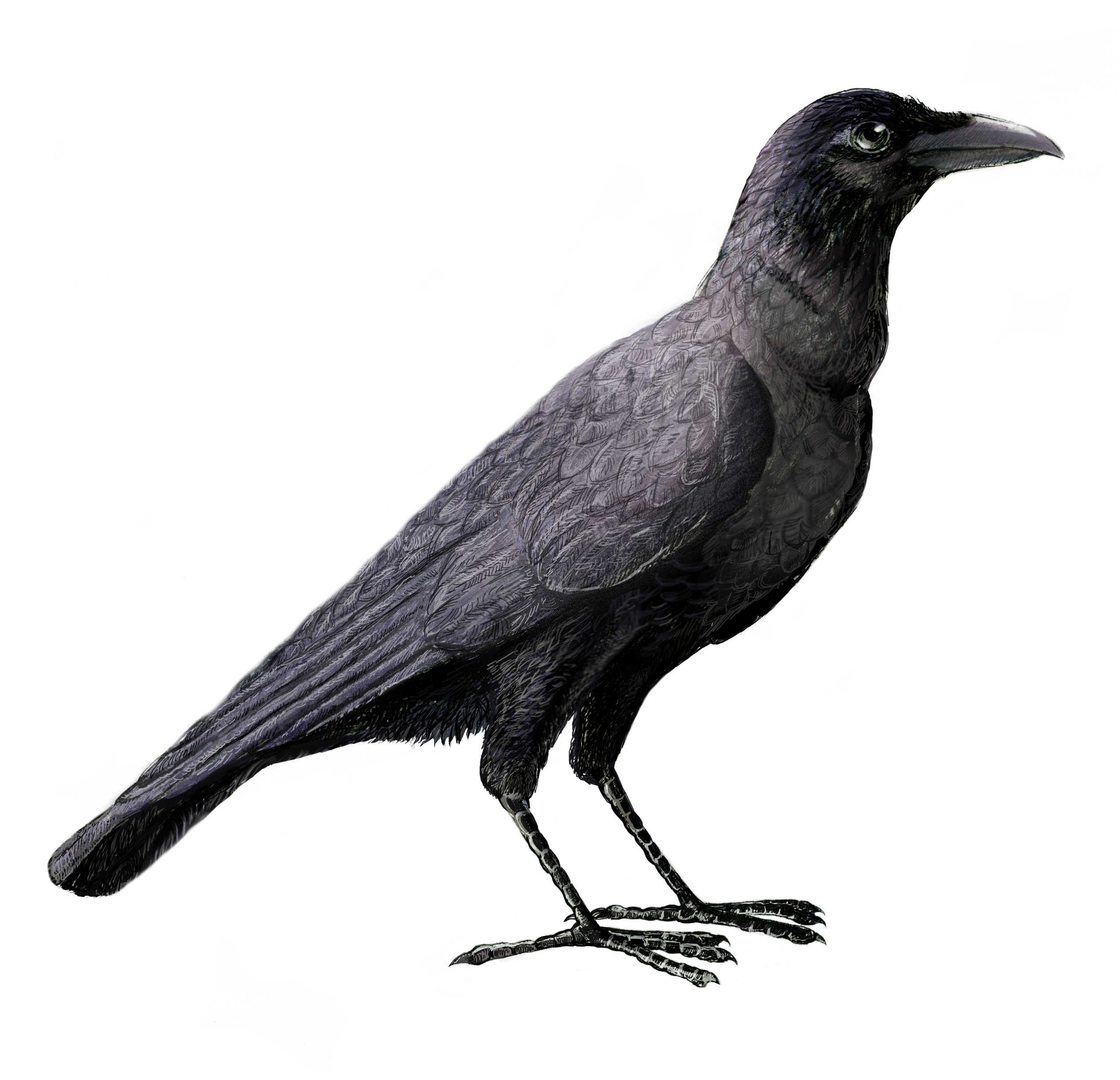 this picture bases on photograph1, photograph2,photograph3, photograph4 paper, watercolor, black ink, pencil, photoshop